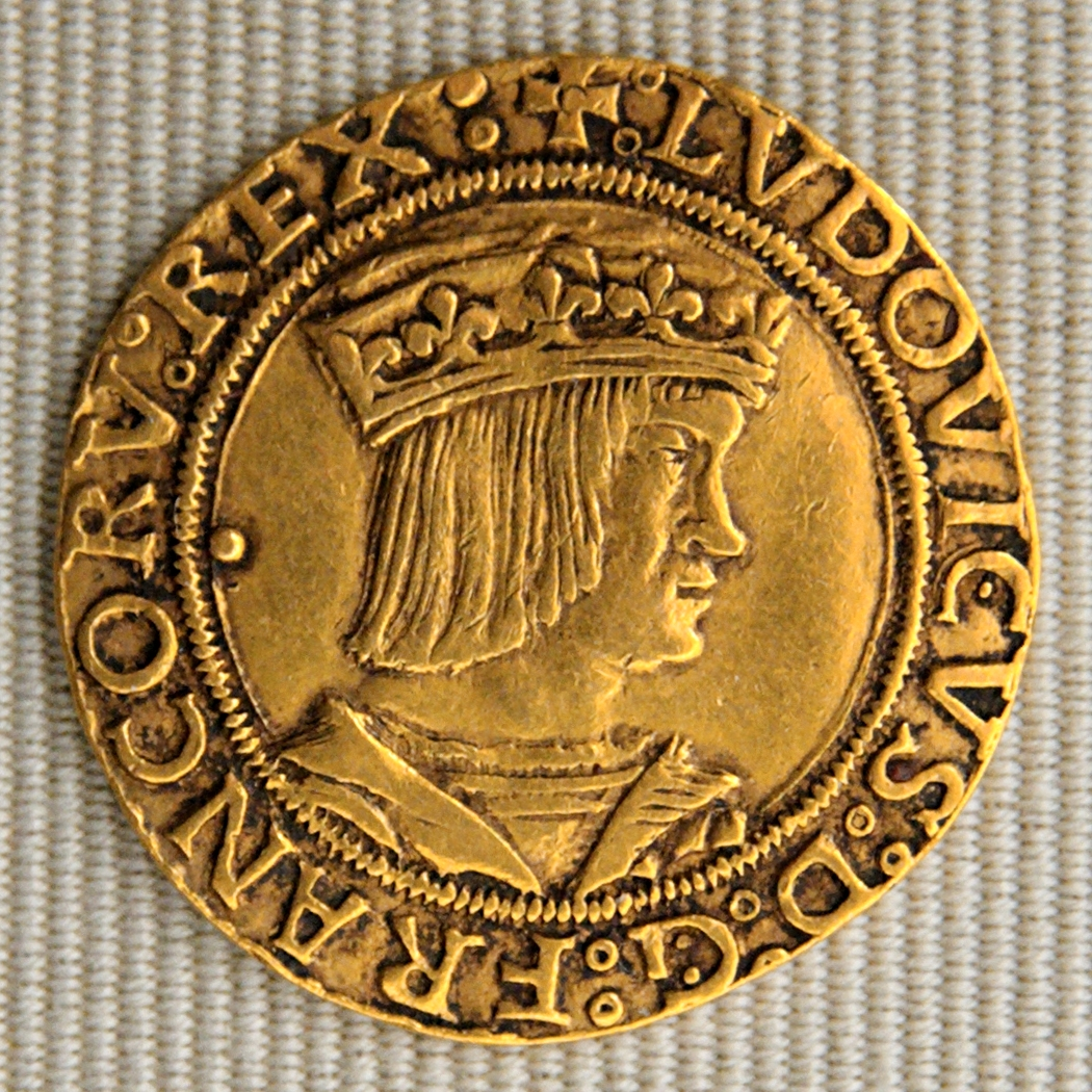 Test teston of Louis XII, 1514, Paris mint.